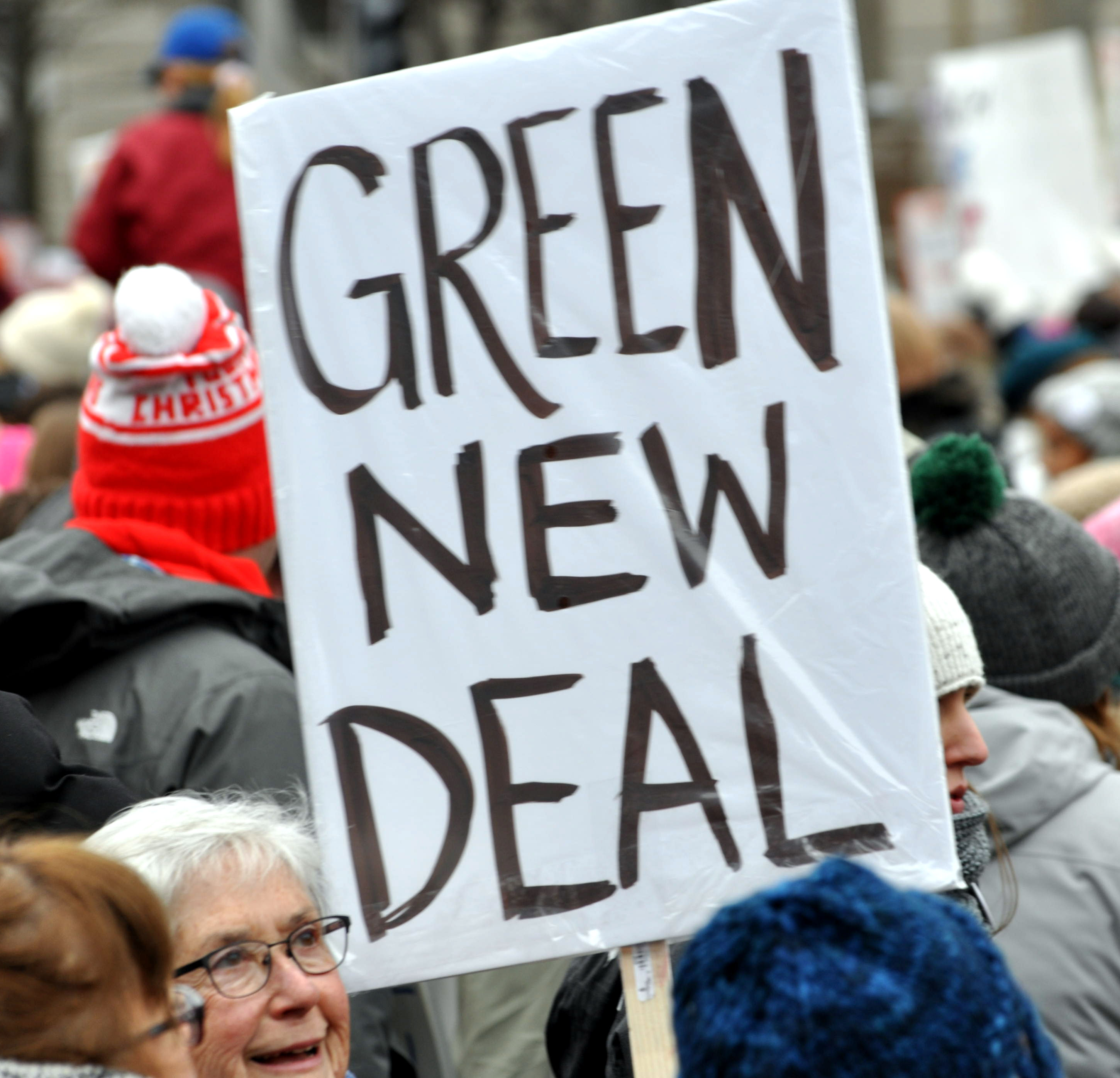 March Women's 0681